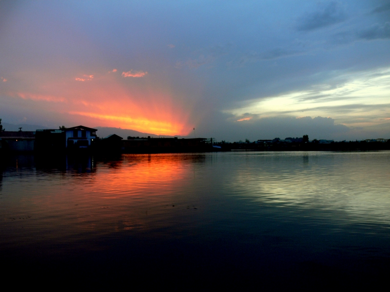 Sunset at Dal lake in Srinagar, capital of Jammu and Kashmir, India